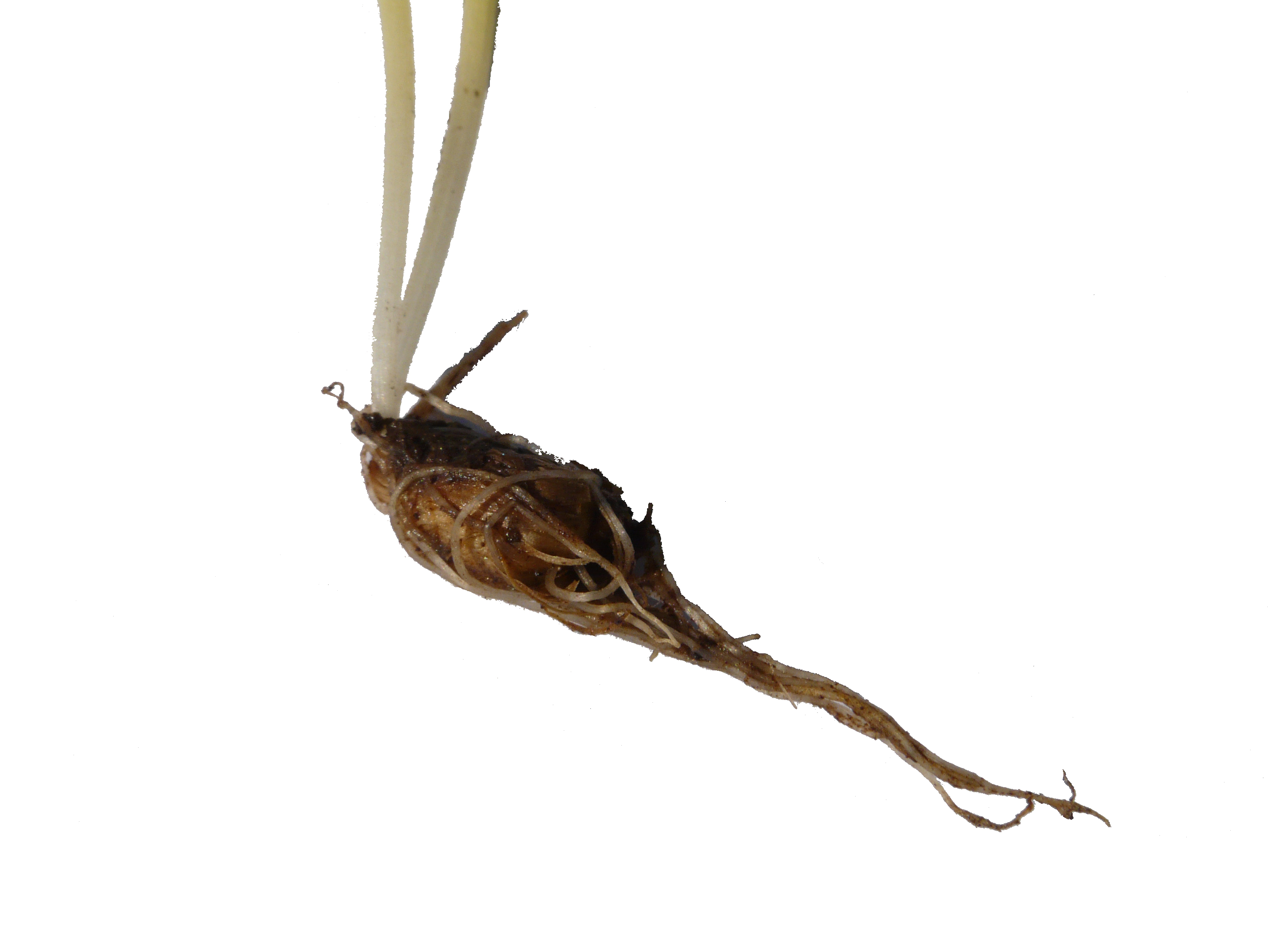 Bulb of Gagae spathacea